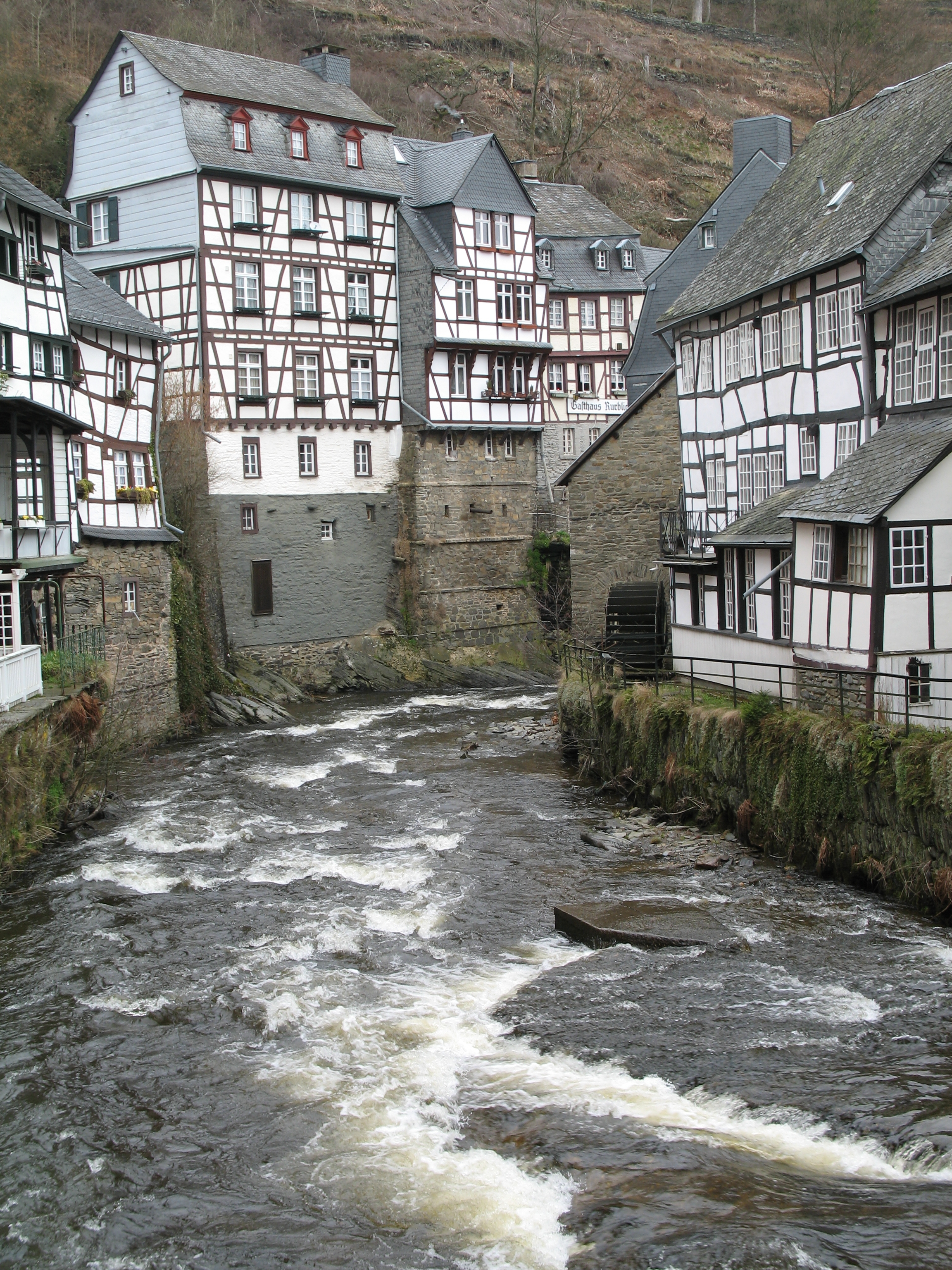 Timber framed houses on the River Rur in Monschau